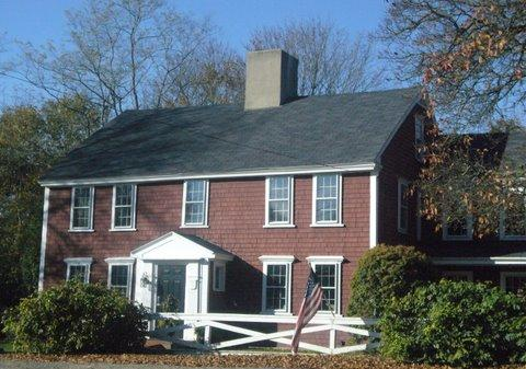 May 2009 photo of the Cahoon Museum of American Art in Cotuit, Massachusetts, USA.